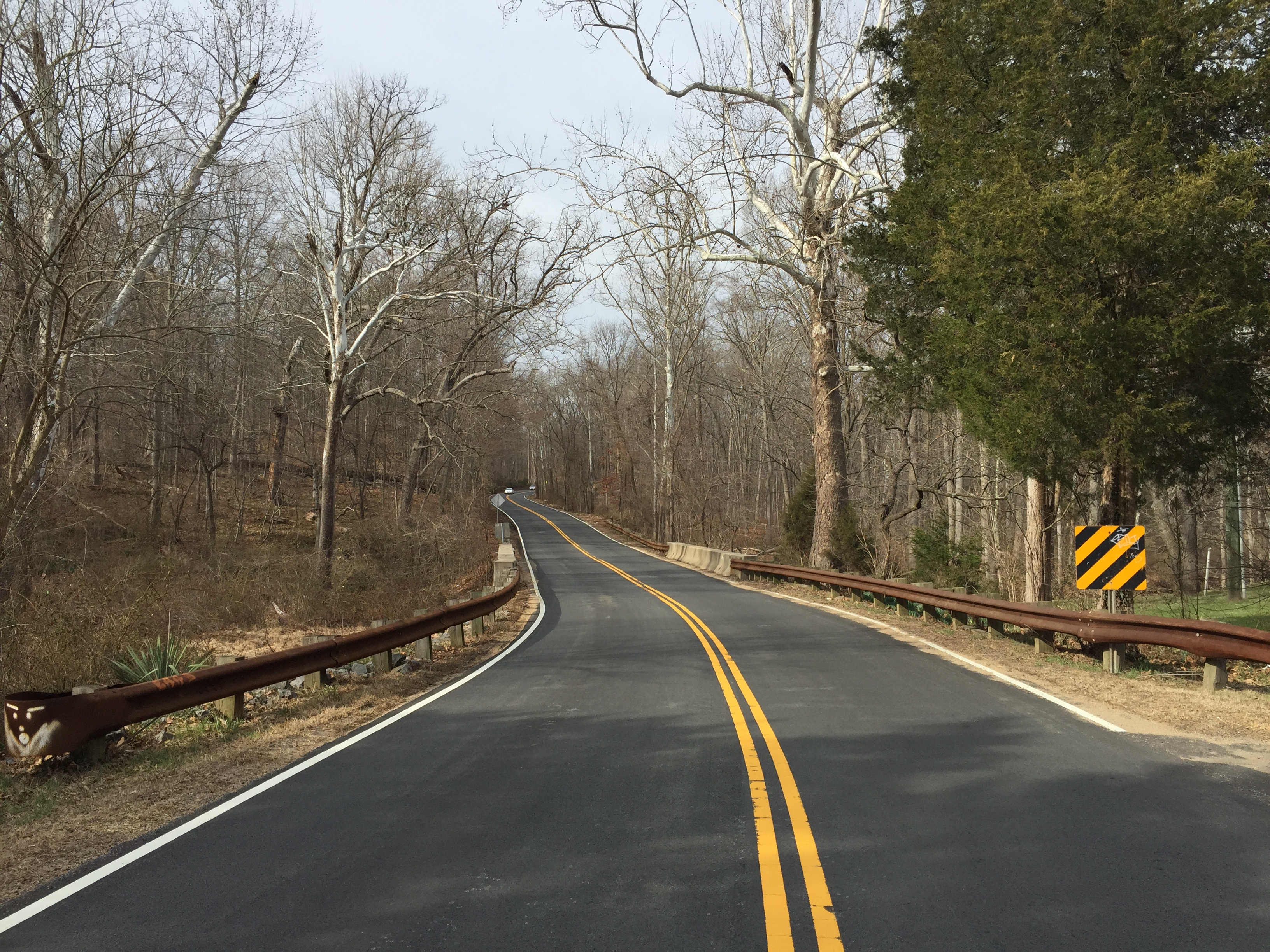 View north along Walney Road (Virginia State Secondary Route 657) at Big Rocky Run within Ellanor C. Lawrence Park in Fairfax County, Virginia